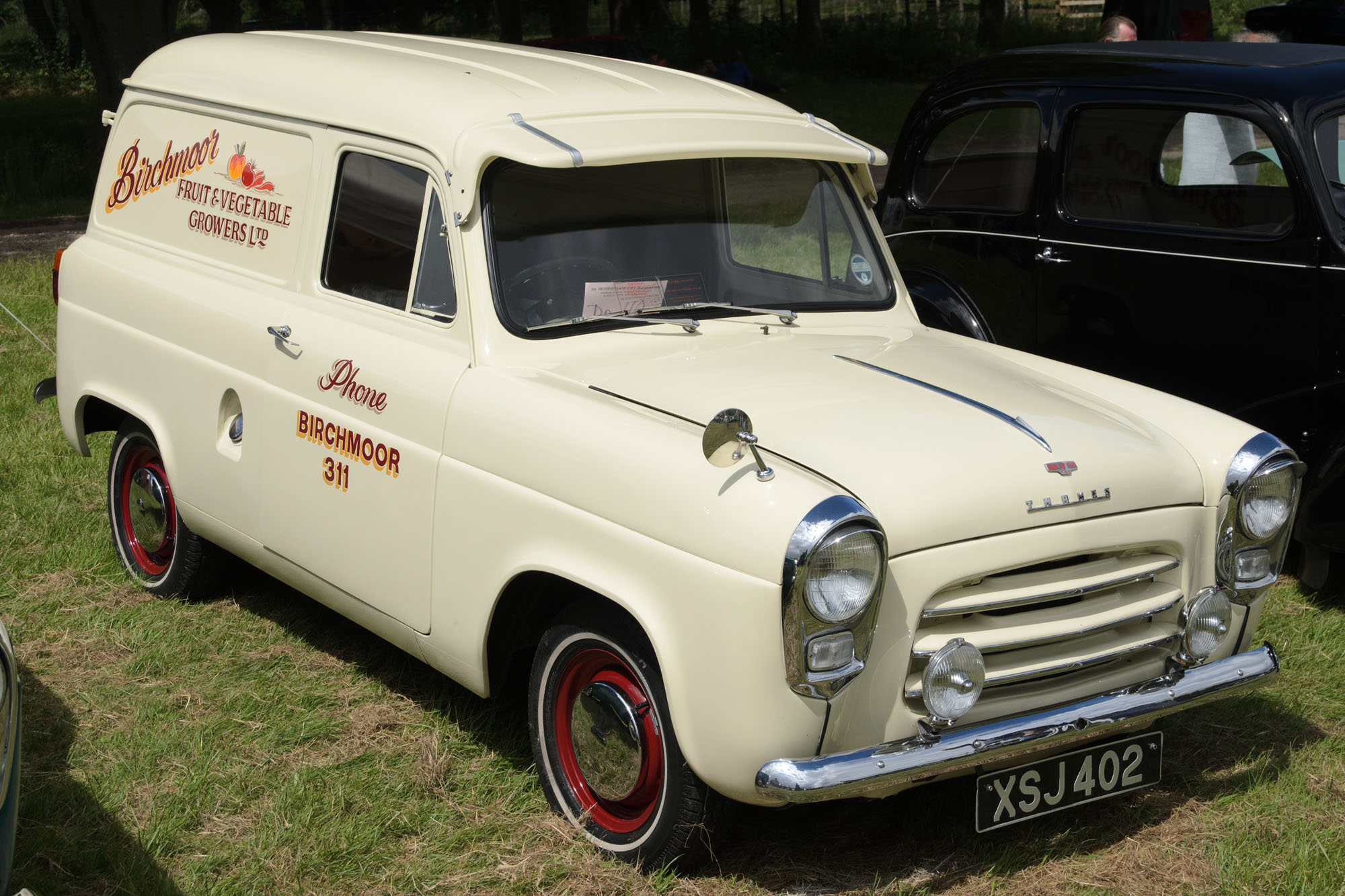 Trentham Gardens Classic Car Show 21/06/2015